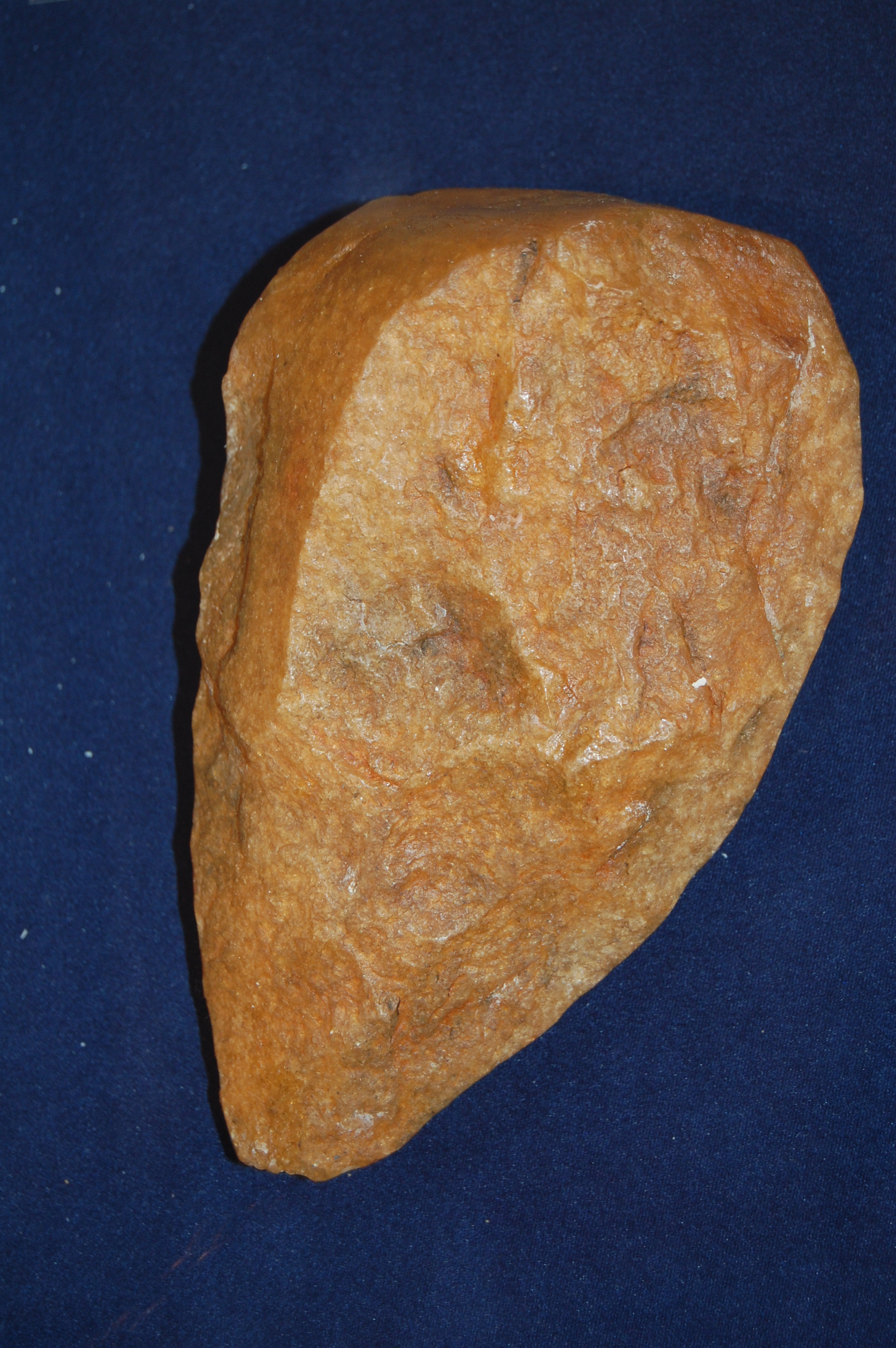 hand axe, found in Poesing, 100.000 years old